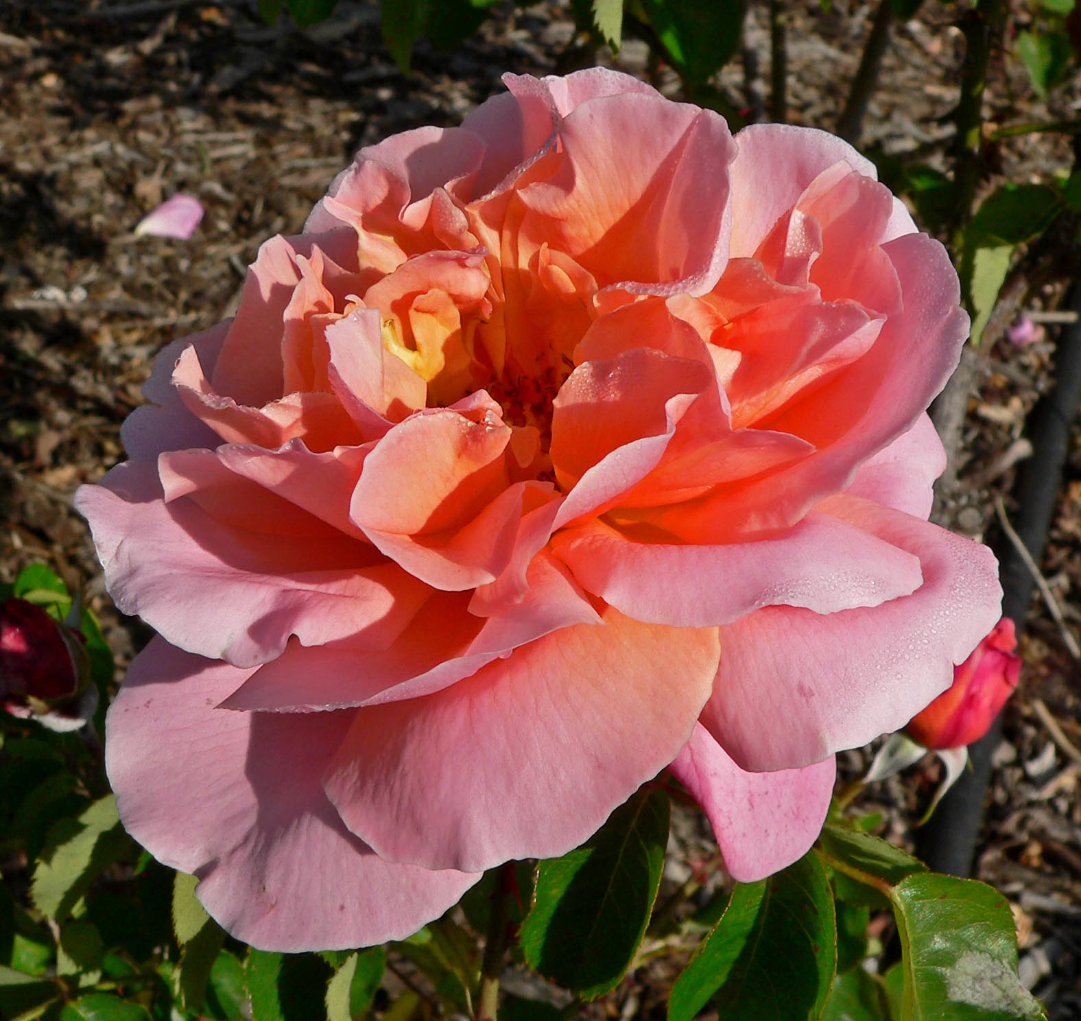 Photo of Rosa 'Mari Dot' at the San Jose Heritage Rose Garden